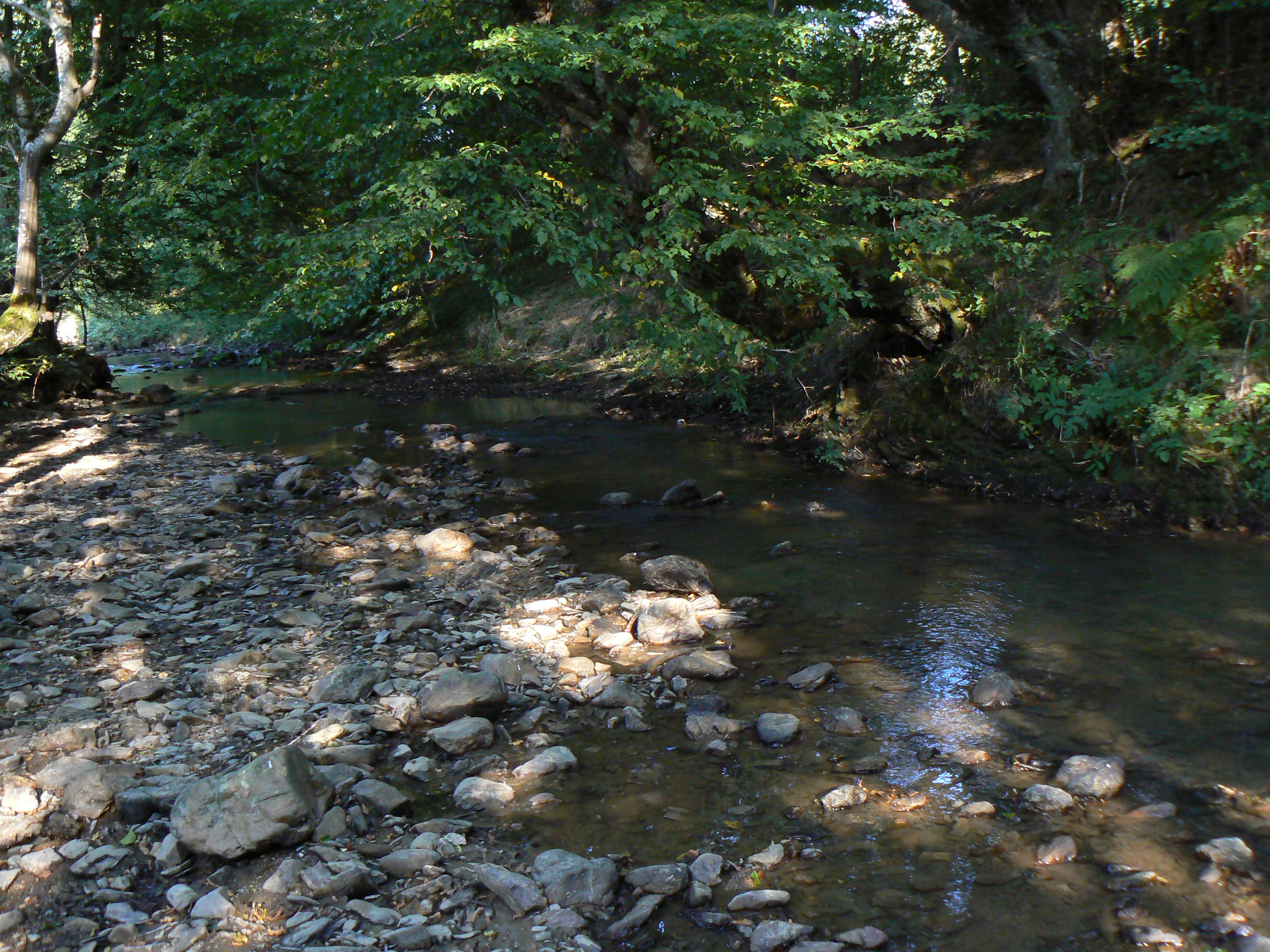 Batuliiska River, before reaching village Yablanitsa. Bulgaria